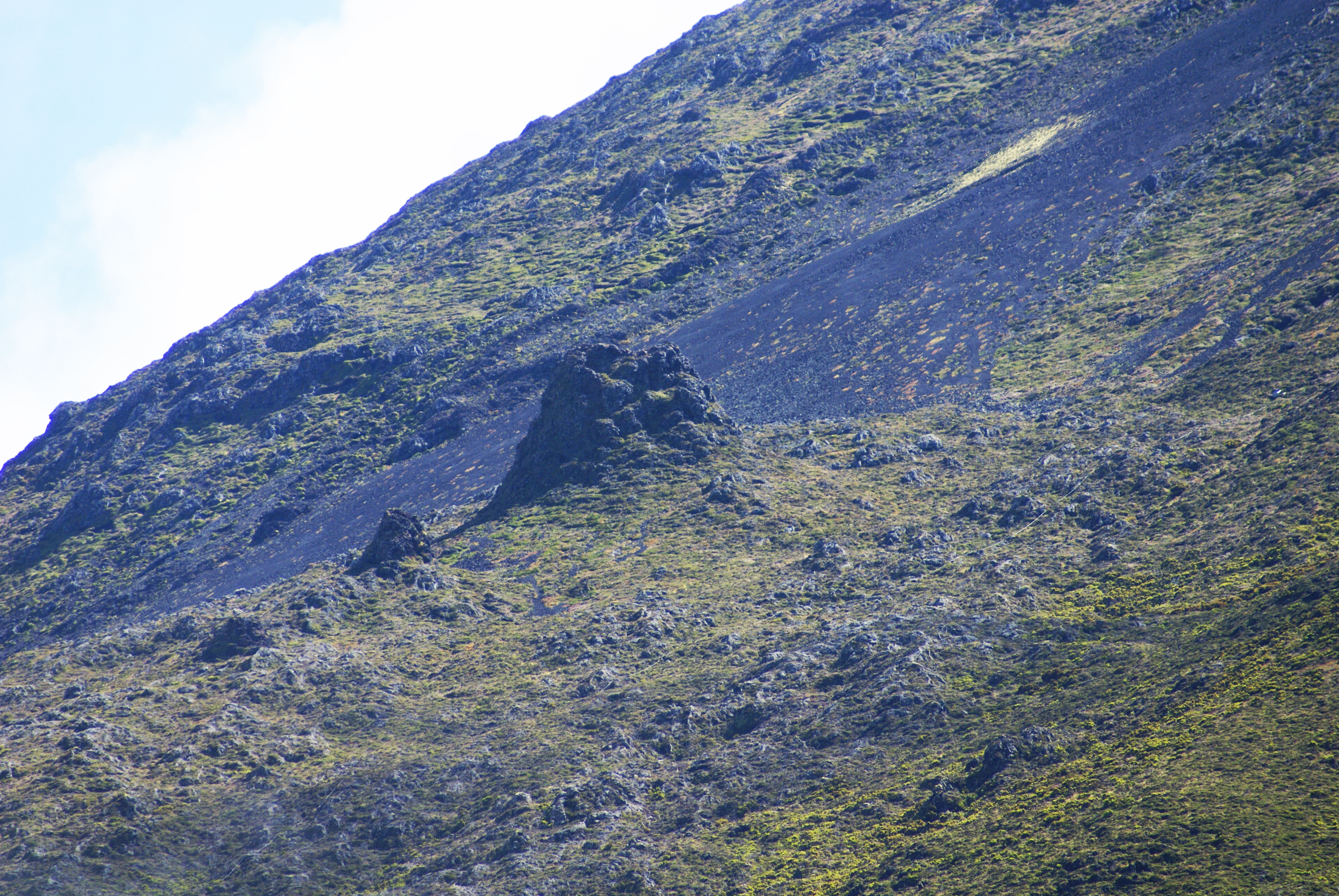 Montanha do Pico, cones adventícios, próximo ao cume 1 ilha do Pico, Açores, Portugal